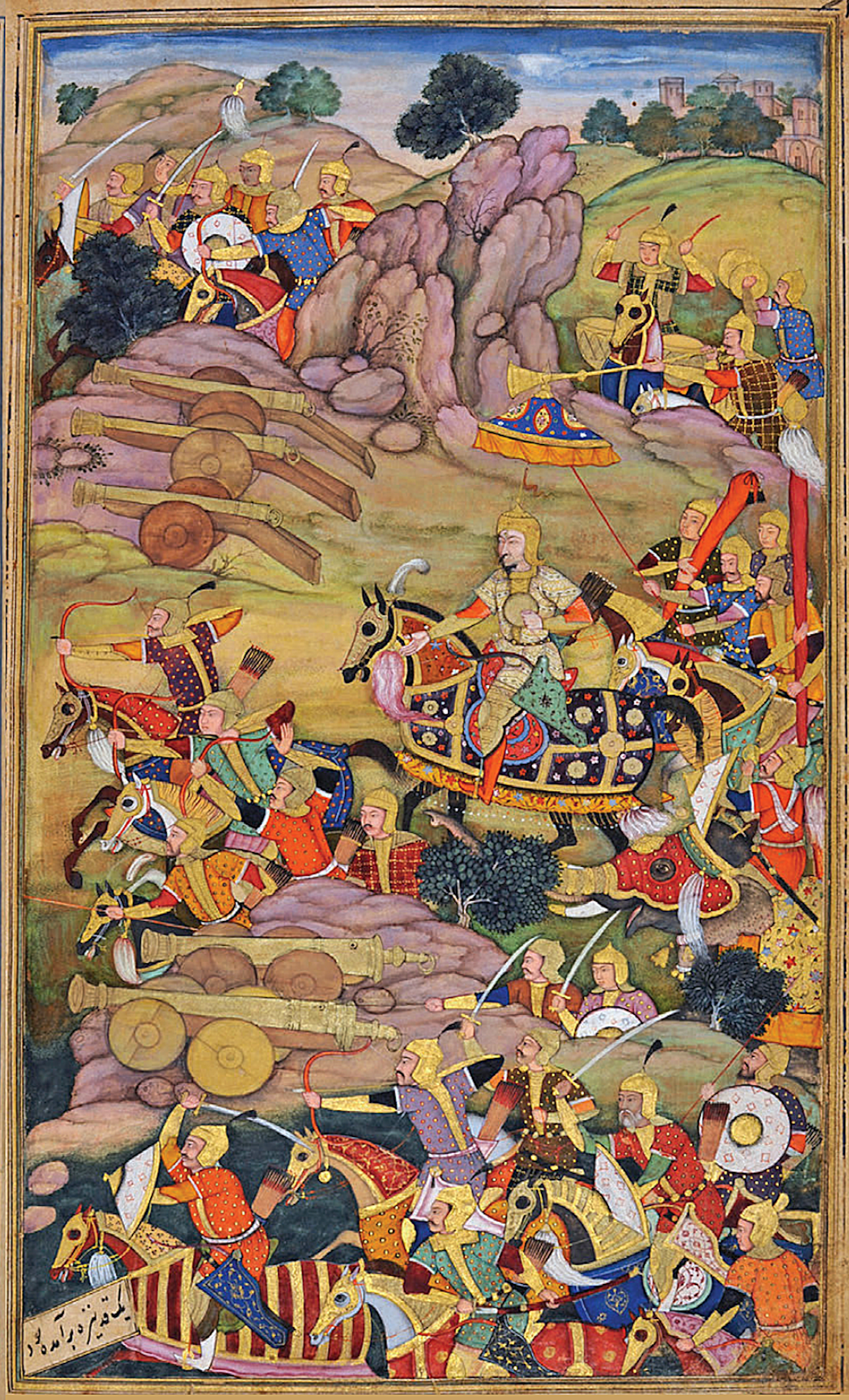 The "Memoirs of Babur" or Baburnama are the work of the great-great-great-grandson of Timur (Tamerlane), Zahiruddin Muhammad Babur (1483-1530). The Baburnama tells the tale of the prince's struggle first to assert and defend his claim to the throne of Samarkand and the region of the Fergana Valley. After being driven out of Samarkand in 1501 by the Uzbek Shaibanids, he ultimately sought greener pastures, first in Kabul and then in northern India, where his descendants were the Moghul (Mughal) dynasty ruling in Delhi until 1858. The miniatures are from an illustrated copy of the Baburnama prepared for the author's grandson, the Mughal Emperor Akbar. It is worth remembering that the miniatures reflect the culture of the court at Delhi; hence, for example, the architecture of Central Asian cities resembles the architecture of Mughal India. Nonetheless, these illustrations are important as evidence of the tradition of exquisite miniature painting which developed at the court of Timur and his successors. Timurid miniatures are among the greatest artistic achievements of the Islamic world in the fifteenth and sixteenth centuries. Illustrations of Mughals from the Baburnama